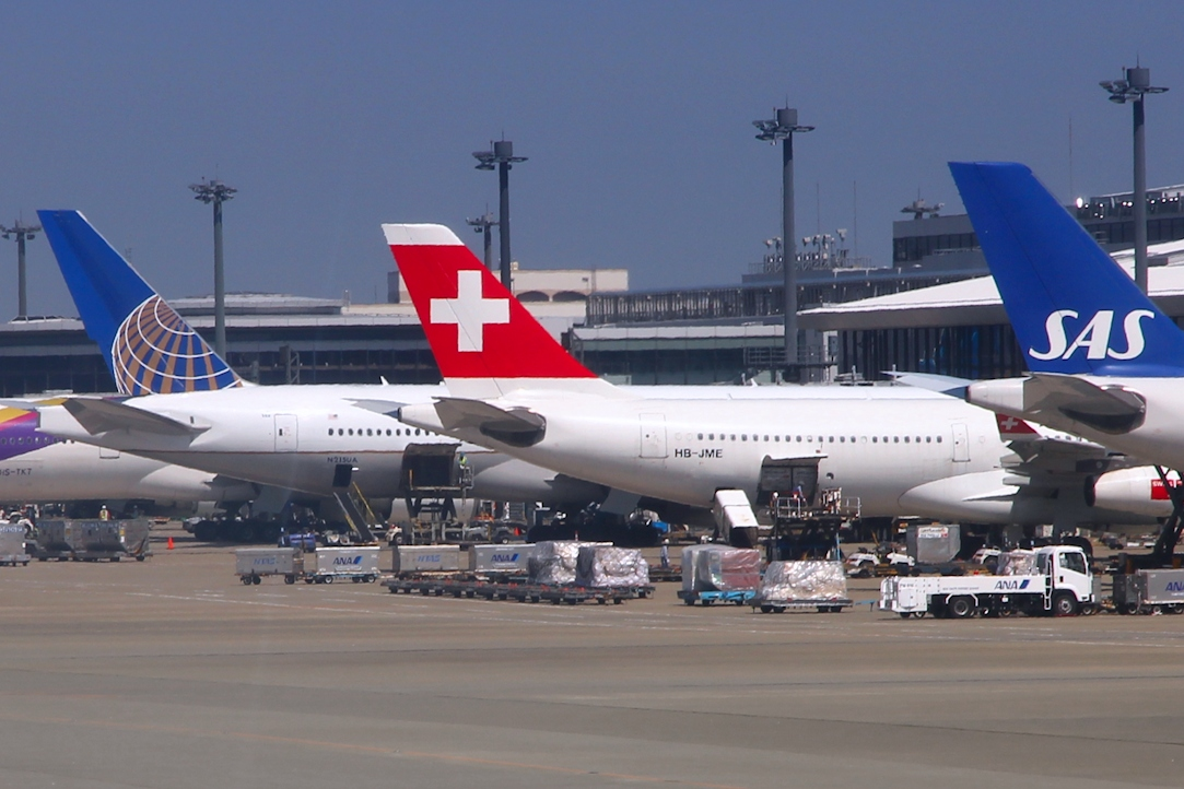 Multiple airlines' aircraft together at Tokyo Narita International Airport, Japan. Swiss International Air Lines, United Airlines, Thai Airways International.